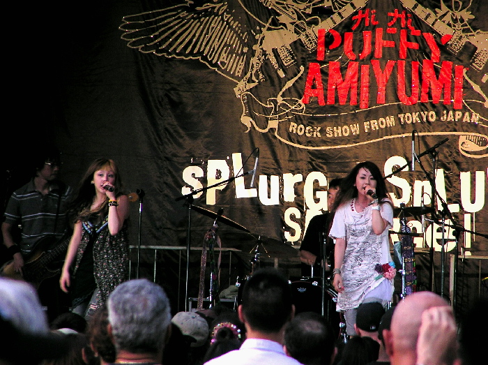 Puffy Amiyumi. World Financial Center Plaza, 7/11/06.